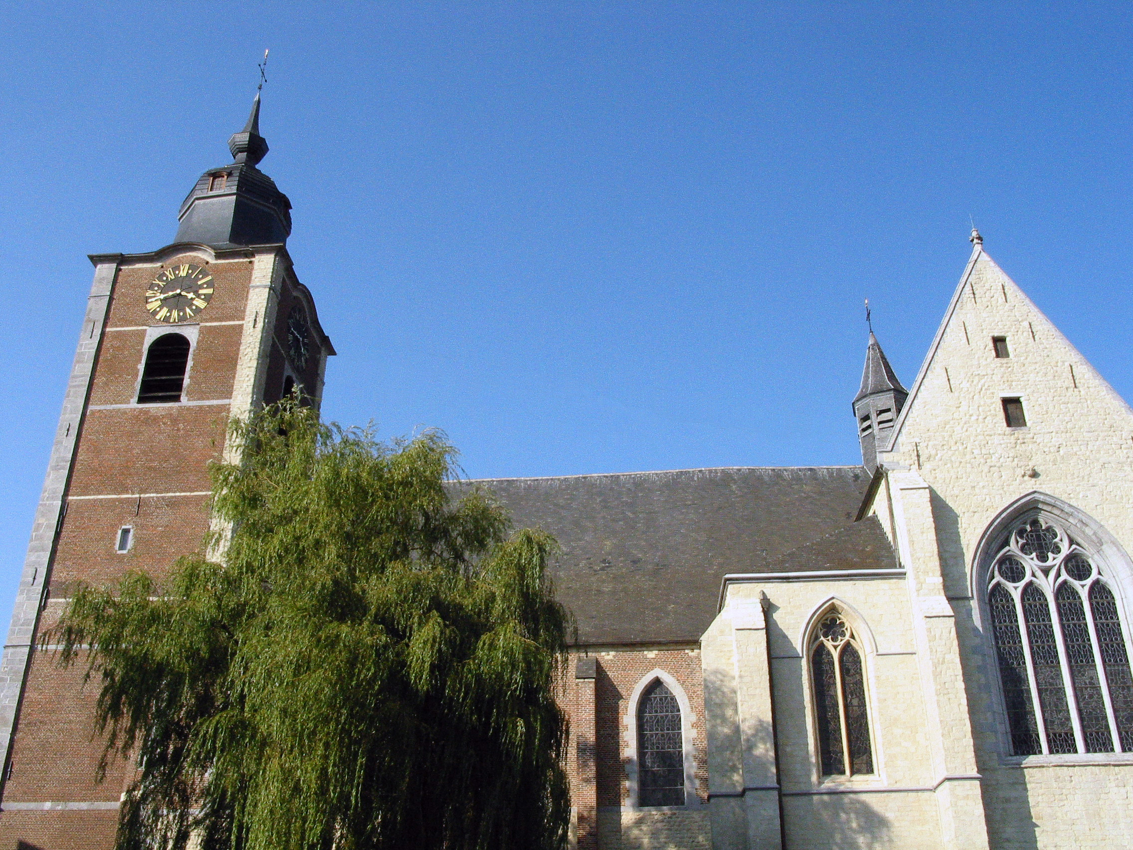 Braine-l'Alleud (Belgium), the St. Stephen church (XVI - XIXth centuries).